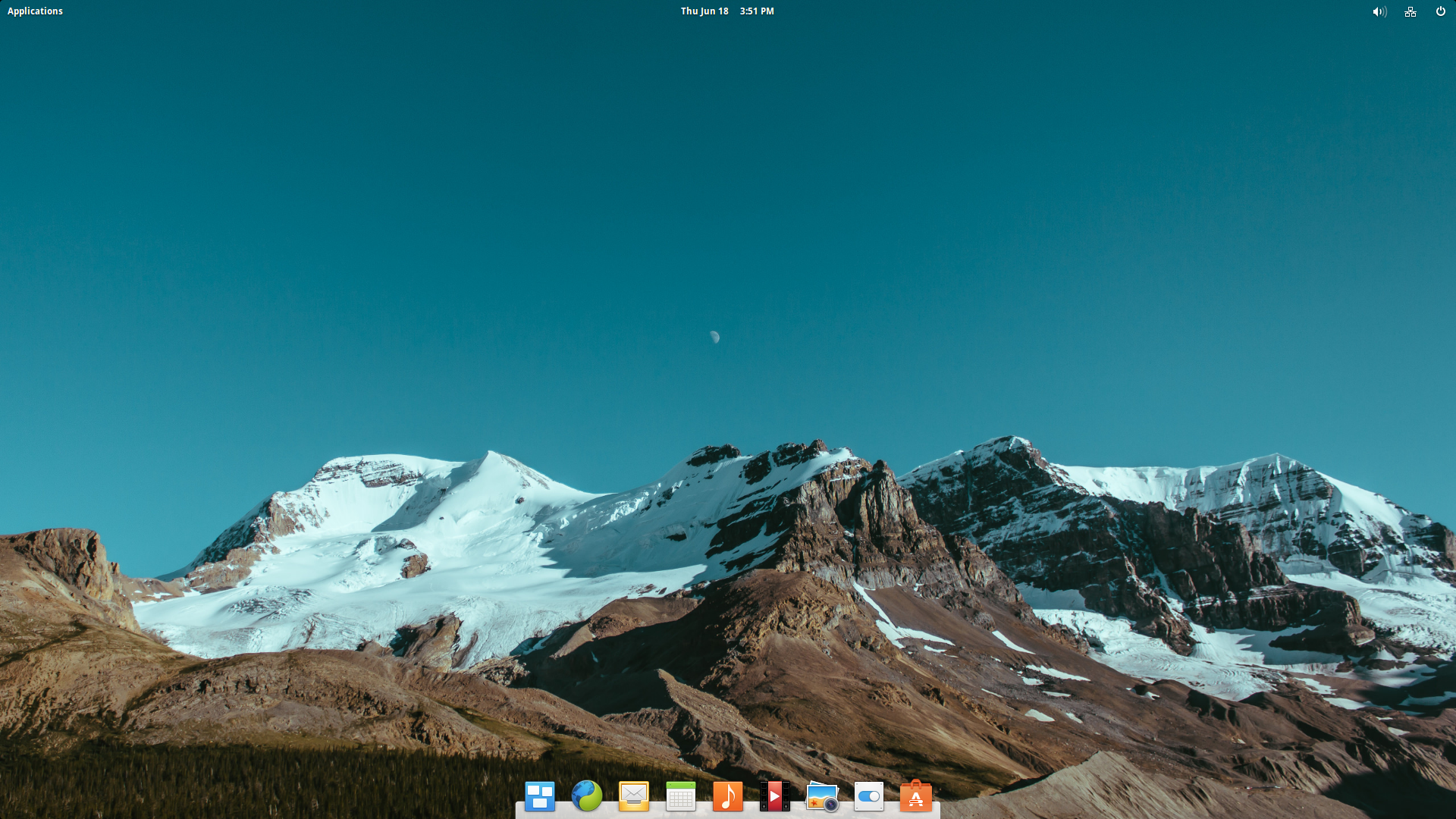 A screenshot of the default desktop on elementary OS 0.3 "Freya"